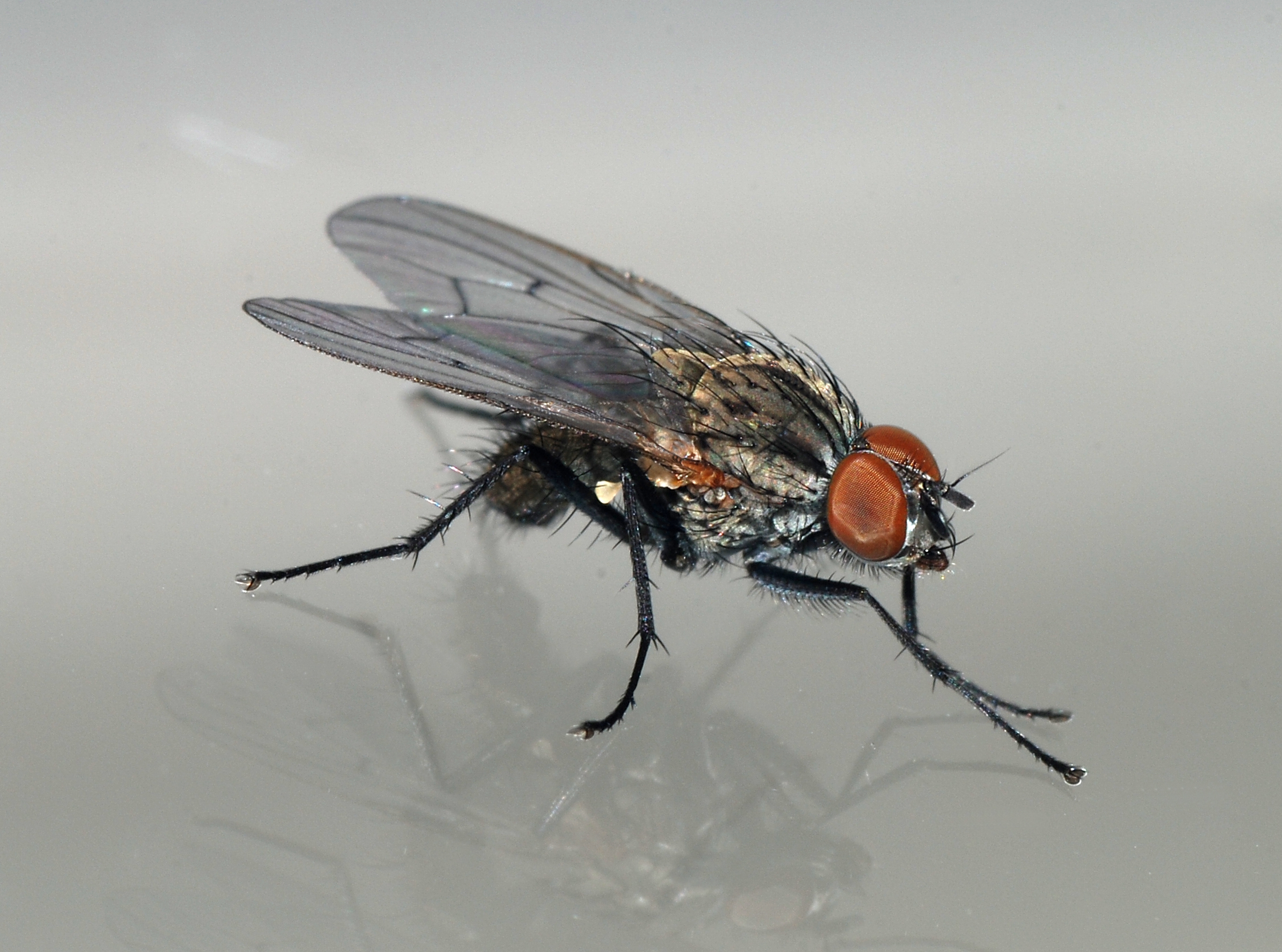 Anthomyia sp.